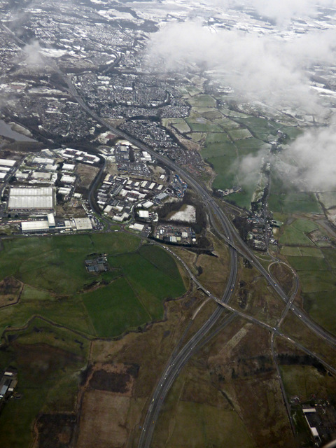 Molinsburn motorway junction from the air